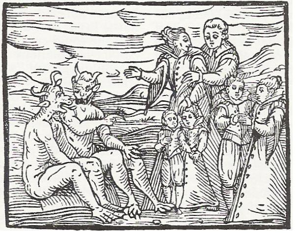 Wood Engraving 24 from the Compendium Maleficarum